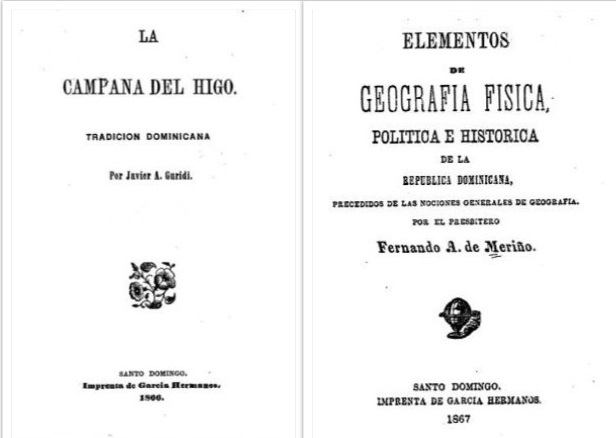 FirstNovelandTextbook